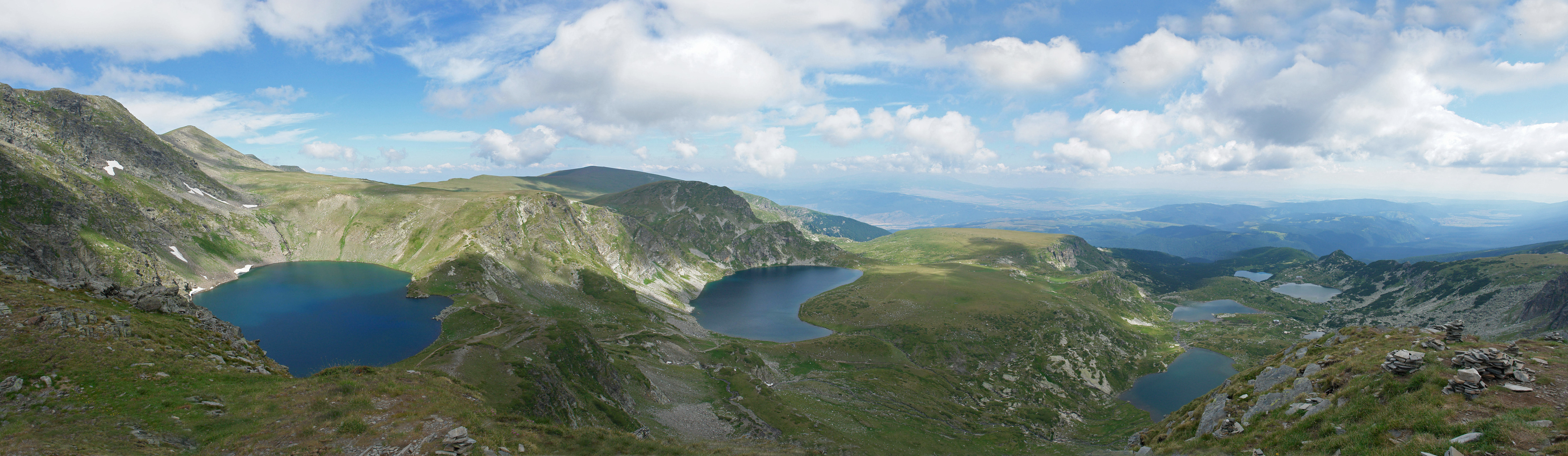 Panoramic photo of the Seven Rila Lakes in the Rila mountains of Bulgaria